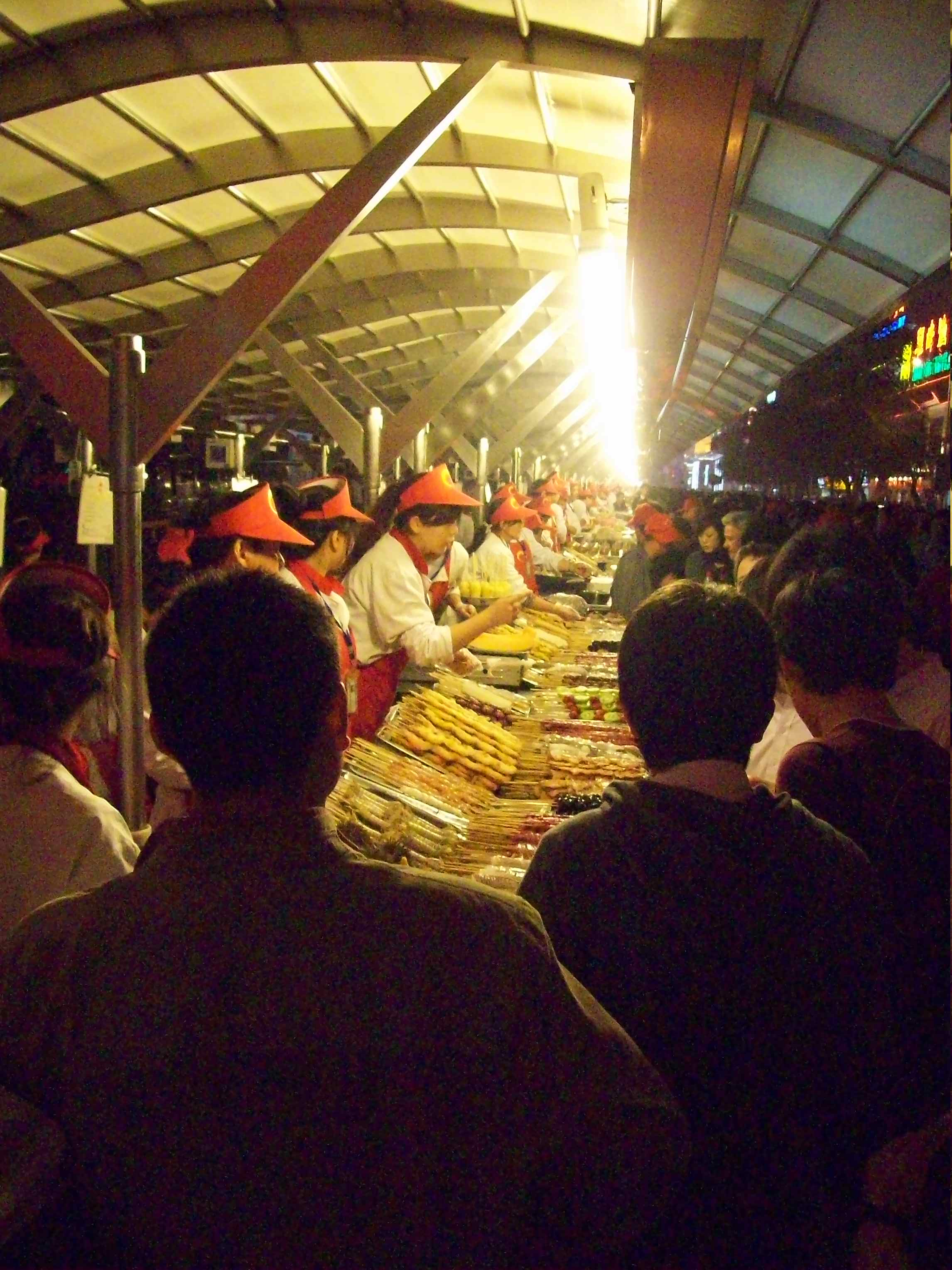 Donghuamen Night Market is a collection of food stalls containing a wide array of unusual delicacies from around China. It is found in Beijng, China